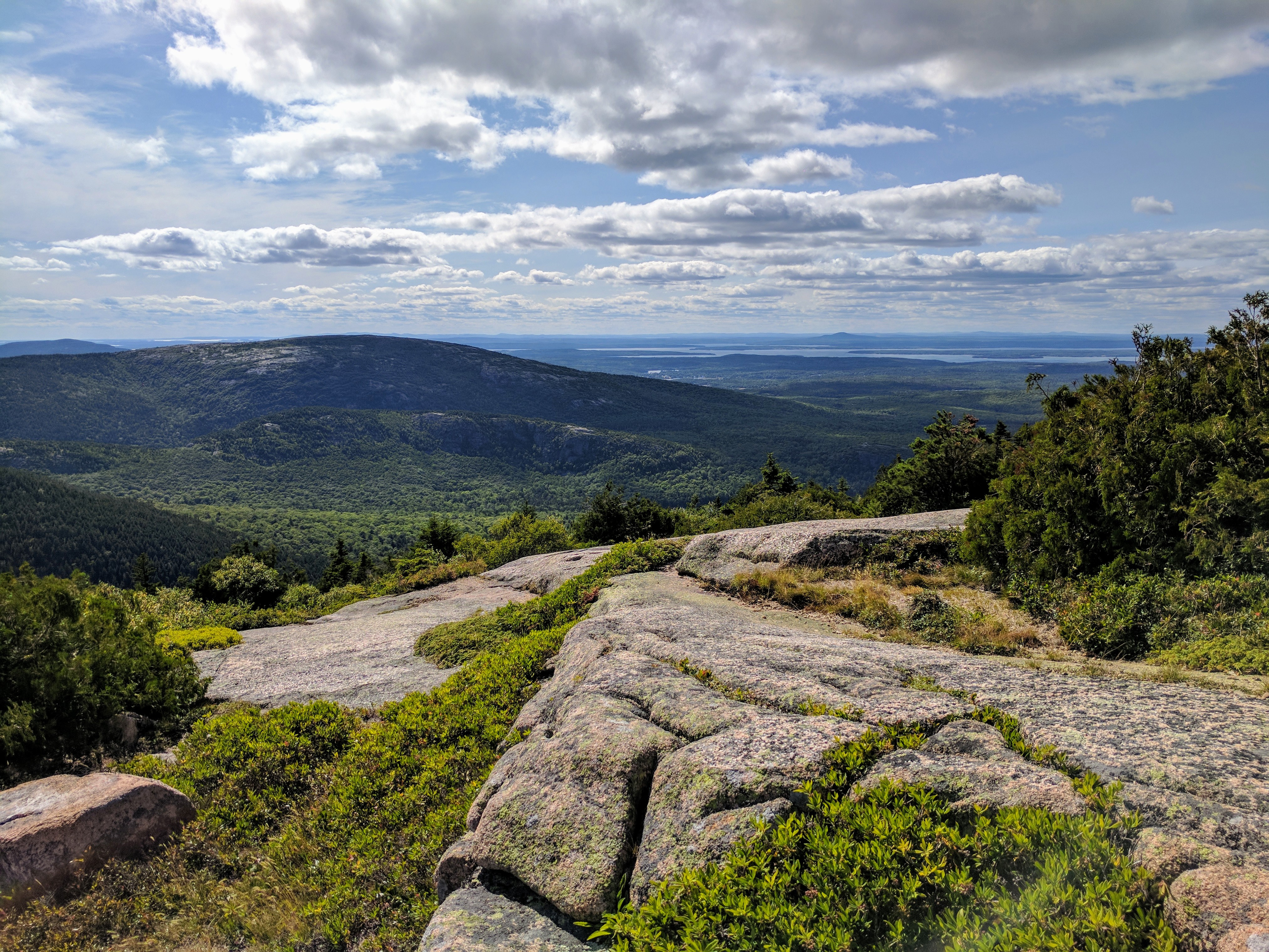 A view of Acadia National Park from Blue Hill Overlook